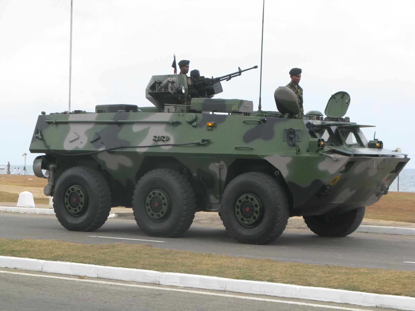 WZ551 (Type 92) Armoured Personnel Carrier - Sri Lanka Army